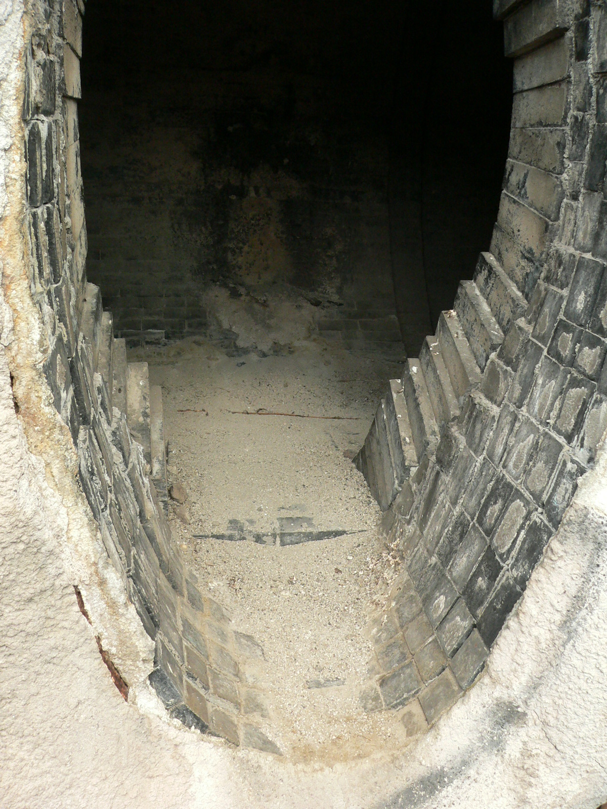 View of the refractory lining of an abandoned torpedo car once used for hauling molten iron (through its pouring hole). Located at the site of the Carrie Furnace, near Pittsburgh, Pennsylvania, United States.